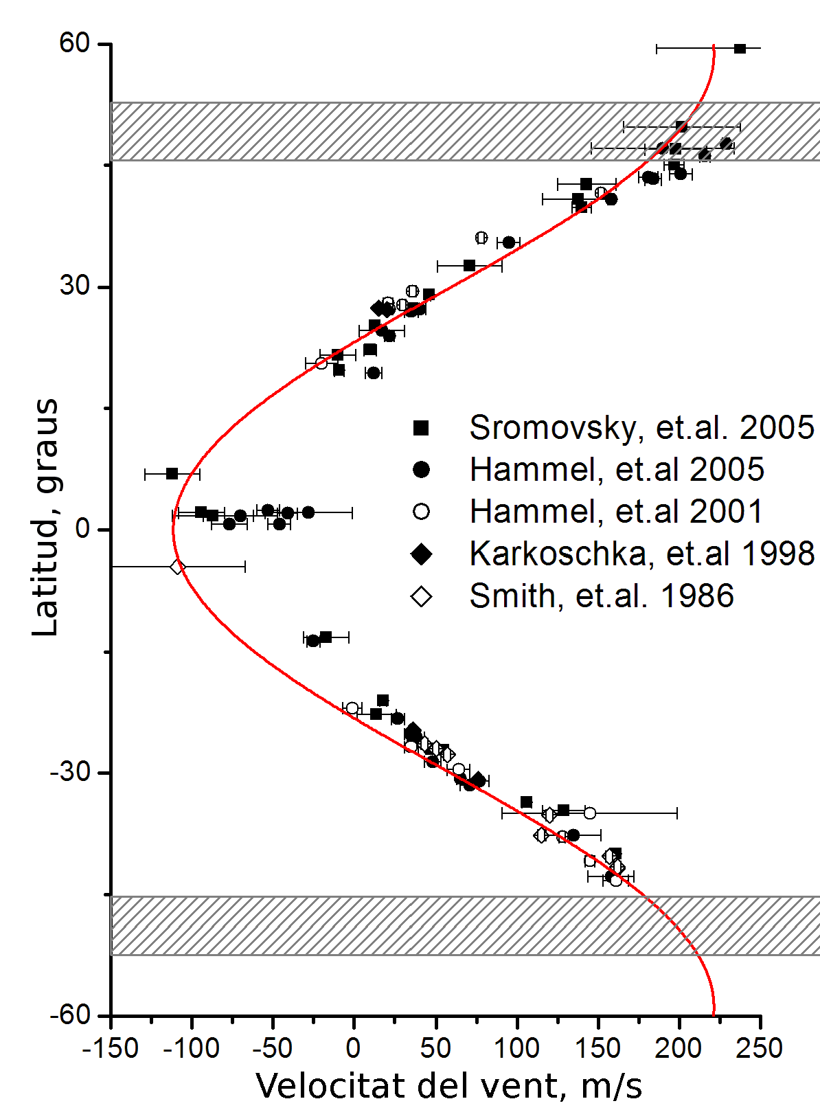 The figure shows zonal winds on Uranus as listed in. (Shaded areas show southern collar and its future northern counterpart. The red curve is a symmetrical fit from Sromovsky et.al 2005.) Hammel, H.B.; Rages, K.; Lockwood, G.W.; et.al. (2001). "New Measurements of the Winds of Uranus". Icarus 153: 229-235. (Table II), in the figure Smith et.al. 1986, Karkoschka et.al.1998, Hammel et.al.2001. Hammel, H.B.; de Pater, I.; Gibbard, S.; et.al. (2005). "Uranus in 2003: Zonal winds, banded structure, and discrete features" (pdf). Icarus 175: 534-545. (Table 3), in the figure Hammel et.al. 2005) Sromovsky, L.A.; Fry, P.M. (2005). "Dynamics of cloud features on Uranus". Icarus 179: 459-483. (Table 7), in the figure Sromovsky et.al 2005